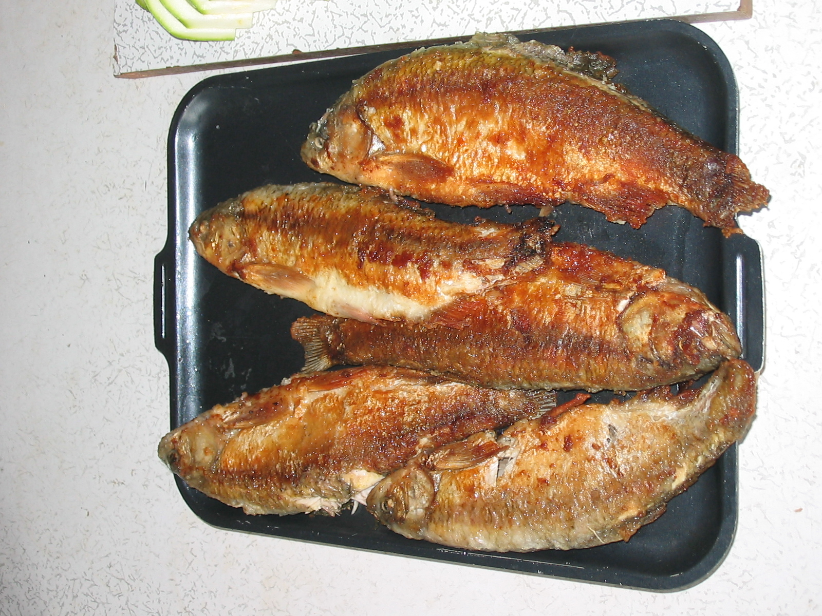 Roasted roach (Rutilus rutilus)